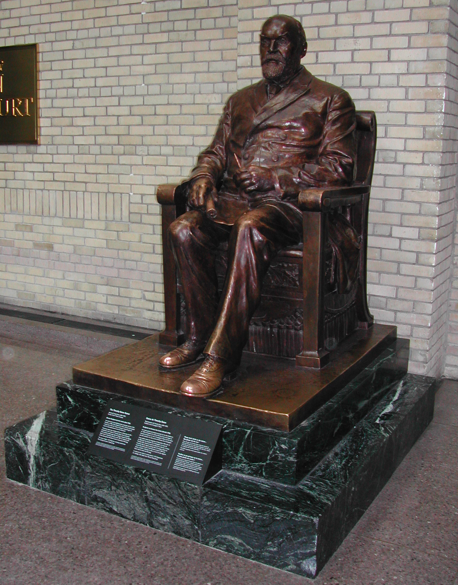 Bronze Statue of Timothy Eaton in the Eaton Gallery of the Royal Ontario Museum, Toronto.